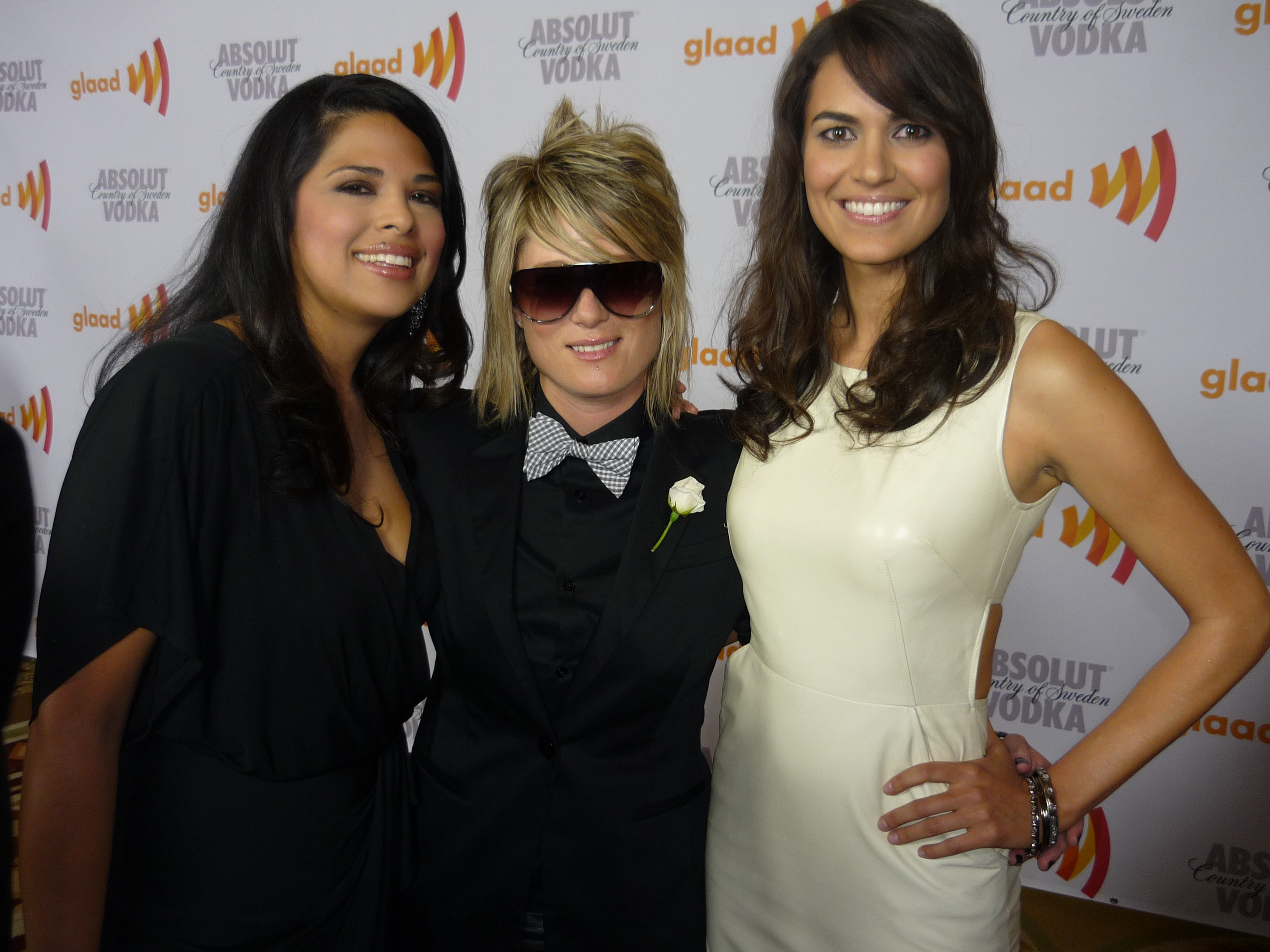 Actresses Rose Garcia, Mikey Koffman and Tracy Ryerson, of "The Real L Word" at 2010 GLAAD Media Awards